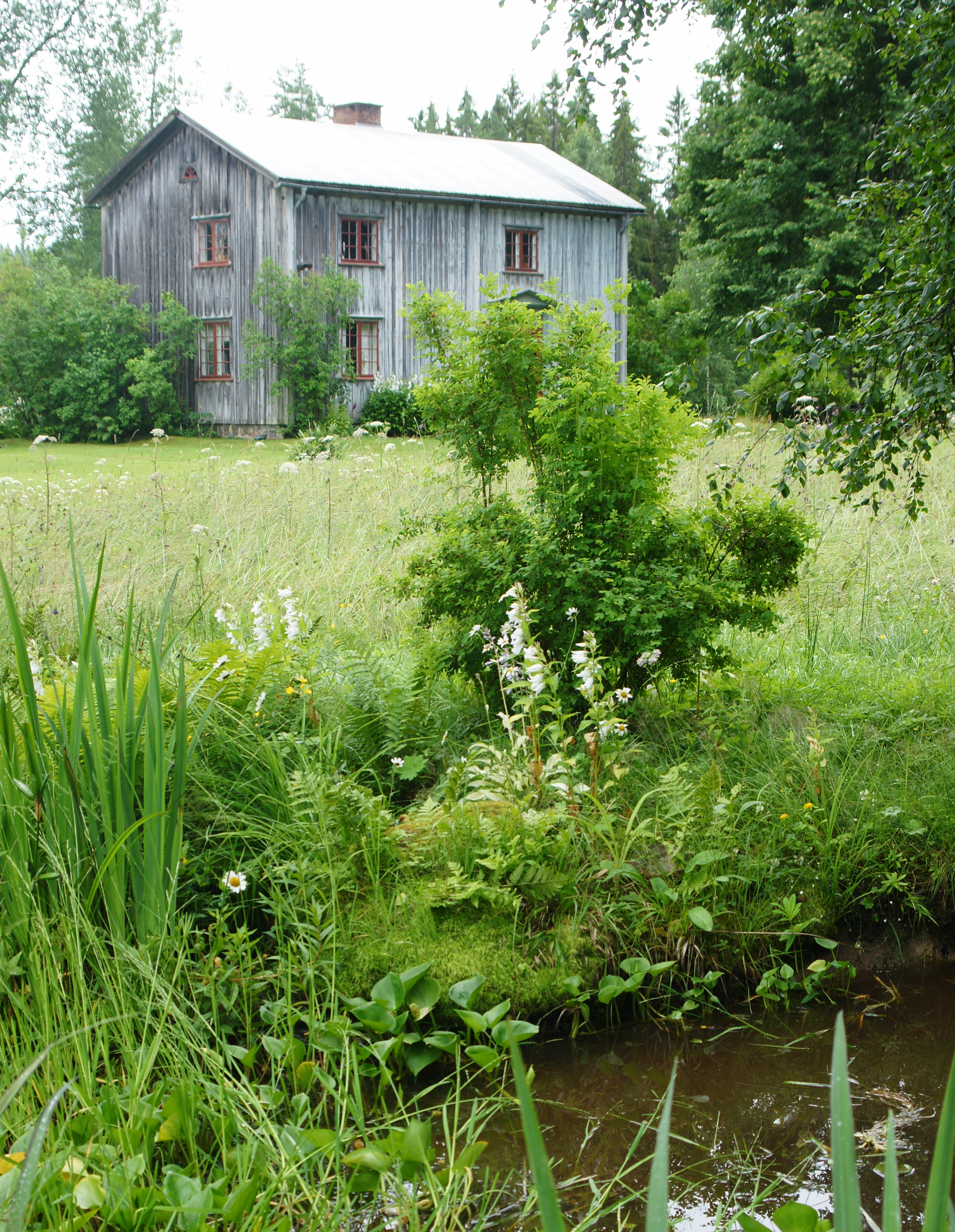 The house of Gunnar Wihlborg, where the Swedish artist Maria Westerberg lives.